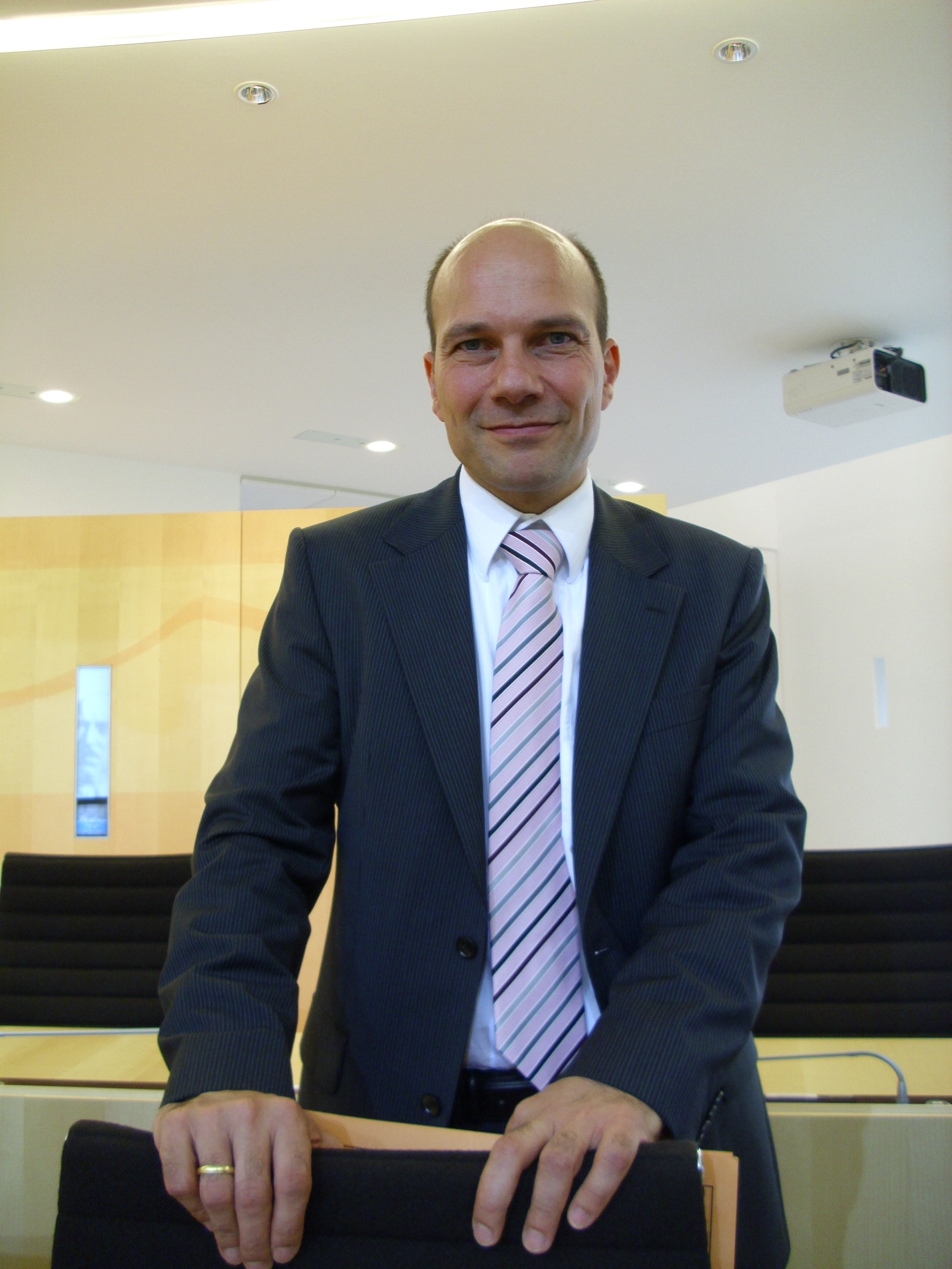 Thomas Petri check usage